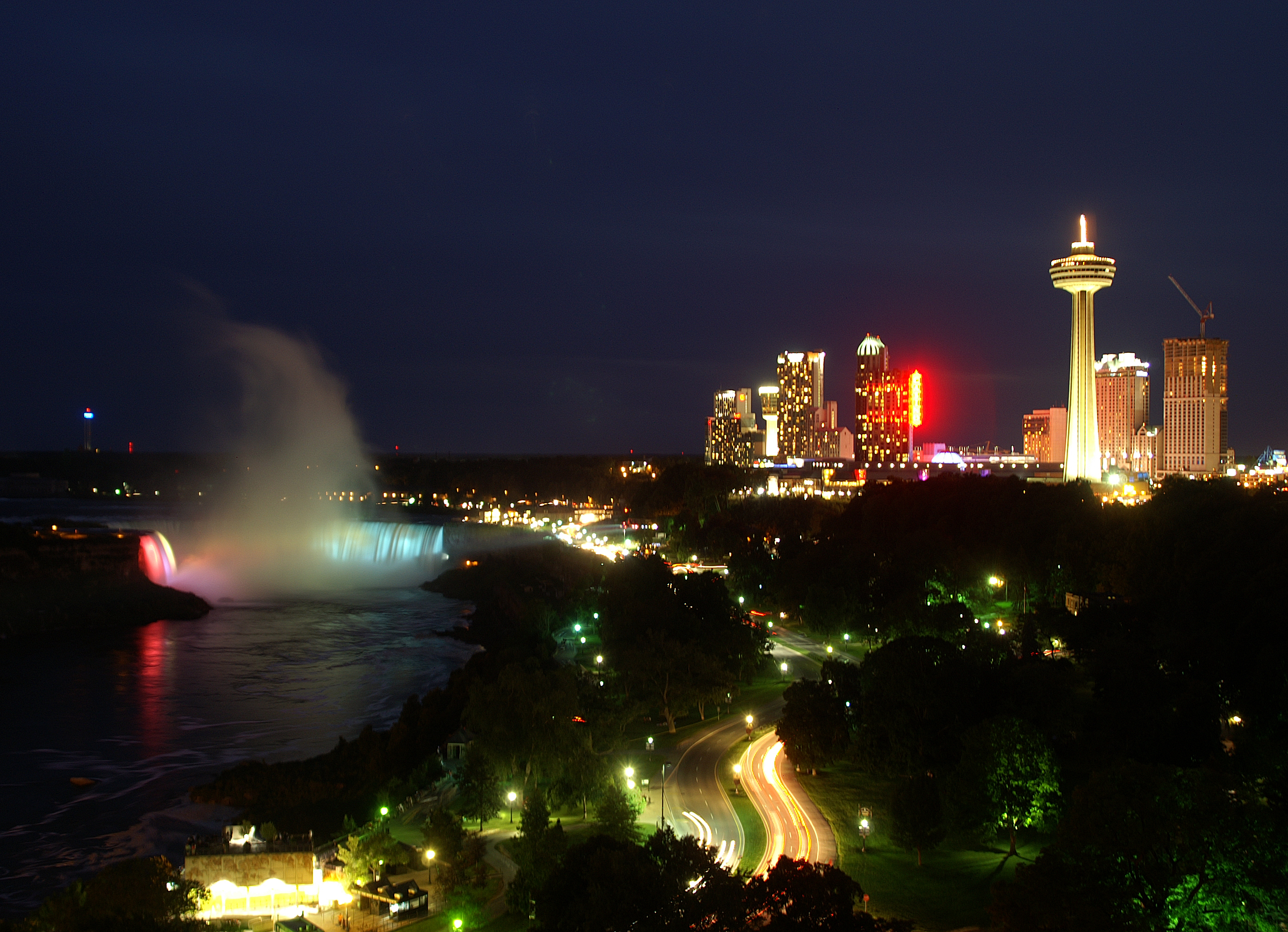 Night view of Niagara Falls.